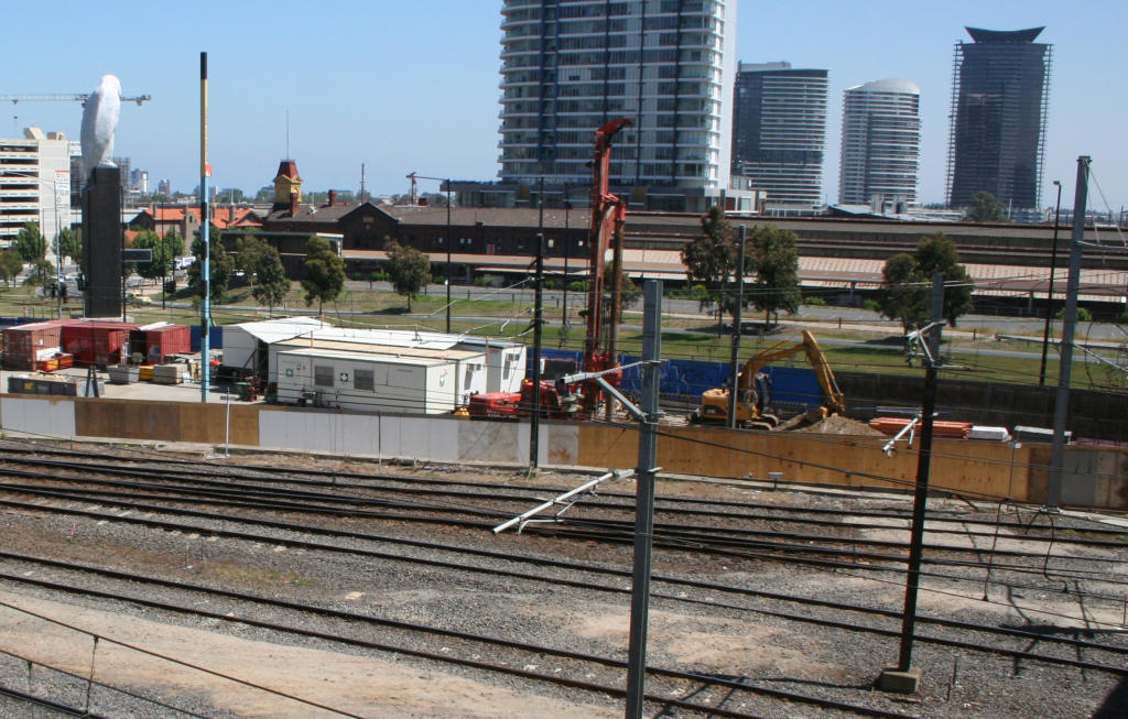 The site of Batman's Hill, Melbourne. Now being built upon.